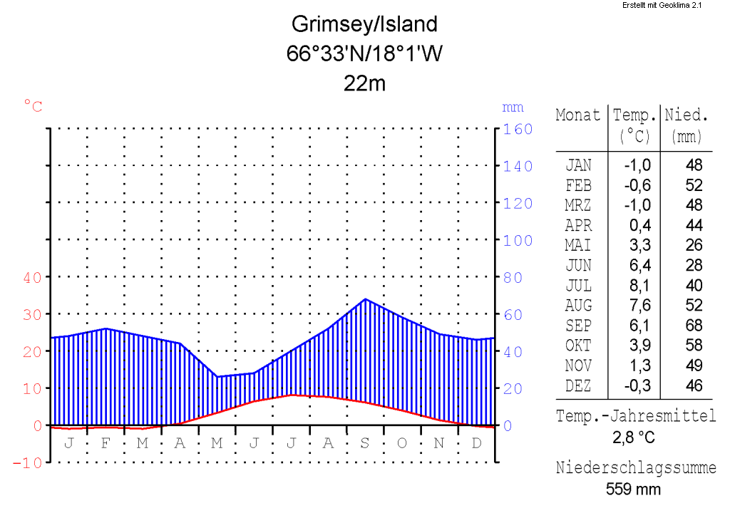 climate chart in the format by Walter and Lieth, metric, °Celsisus and millimeters, made with Geoklima 2.1